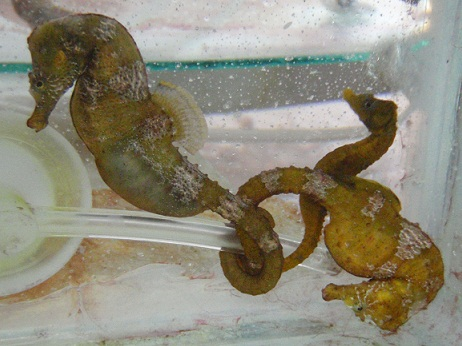 Hippocampus patagonicus embarazado